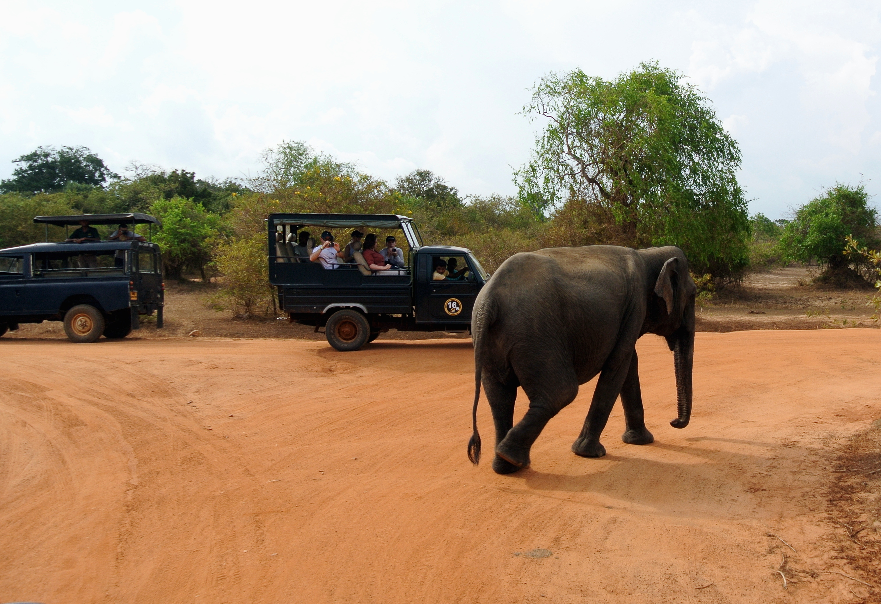 Impact of tourism at Yala National Park, Sri Lanka.